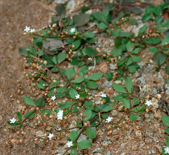 Mollugo nudicaulis Lam. (syn. M. bellidifolia (Poir.) Ser., Pharnaceum bellidifolium Poir., P. spathulatum Sw.)- daisy-leaved chickweed, nakedstem carpetweed- in Keesara, Rangareddy district, Andhra Pradesh, India.